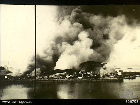 Oosthaven, Sumutra, Dutch East Indies. 1942-02-20. Port facilities destroyed to deny their use by the Japanese as viewed across the water from the RAN ships which evacuated the port. Clouds of smoke rise in the background behind the debris of buildings with their roofs and walls destroyed. (Navy Historical Collection) (Formerly Y053)